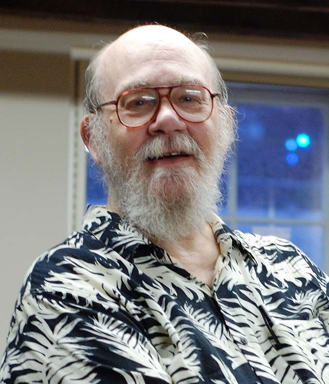 Photo of science fiction author Thomas M. Disch, taken at South Street Seaport by Ariel Hameon on June 3, 2008